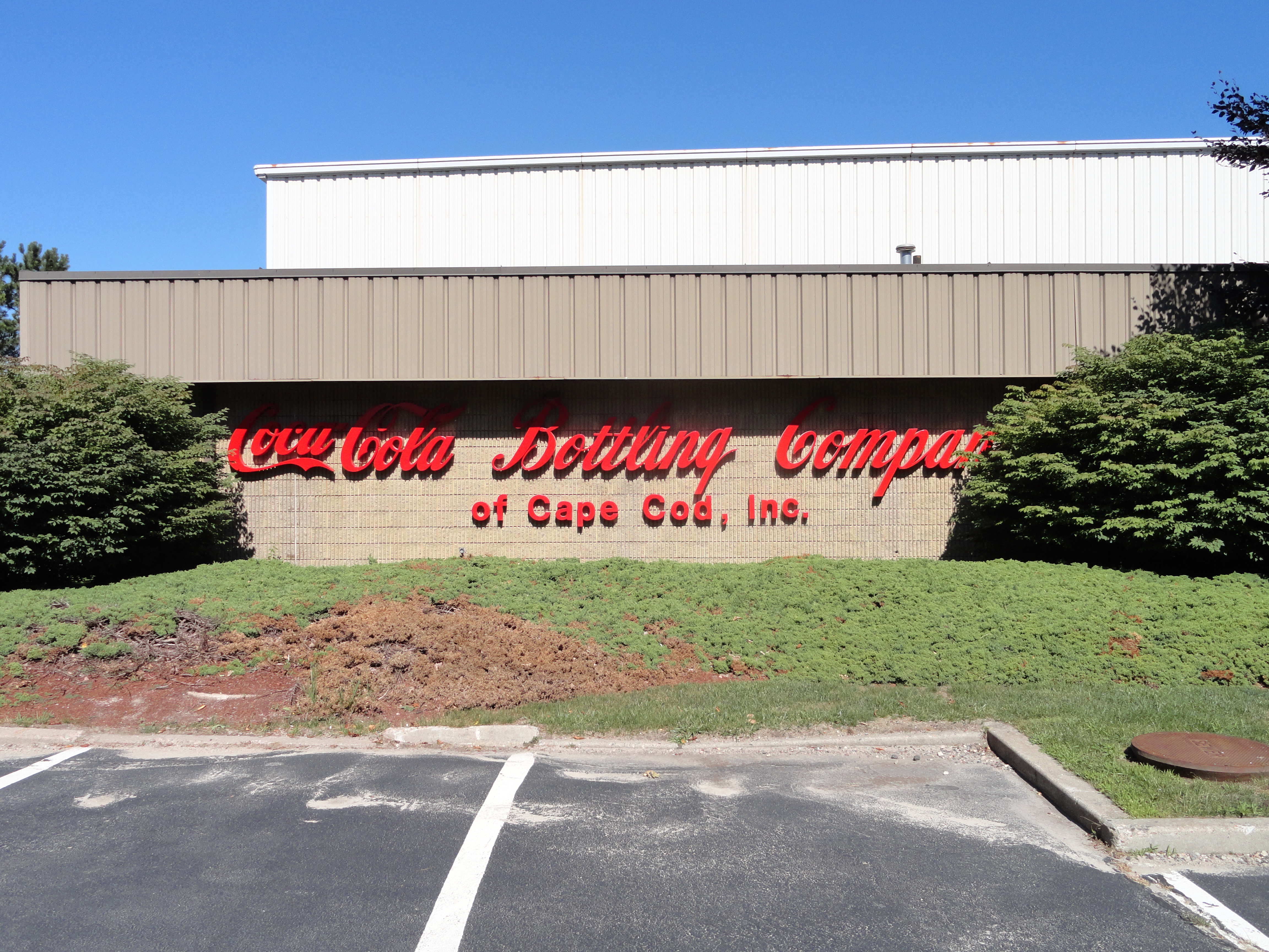 The main building sign at Coca-Cola Bottling Company of Cape Cod.